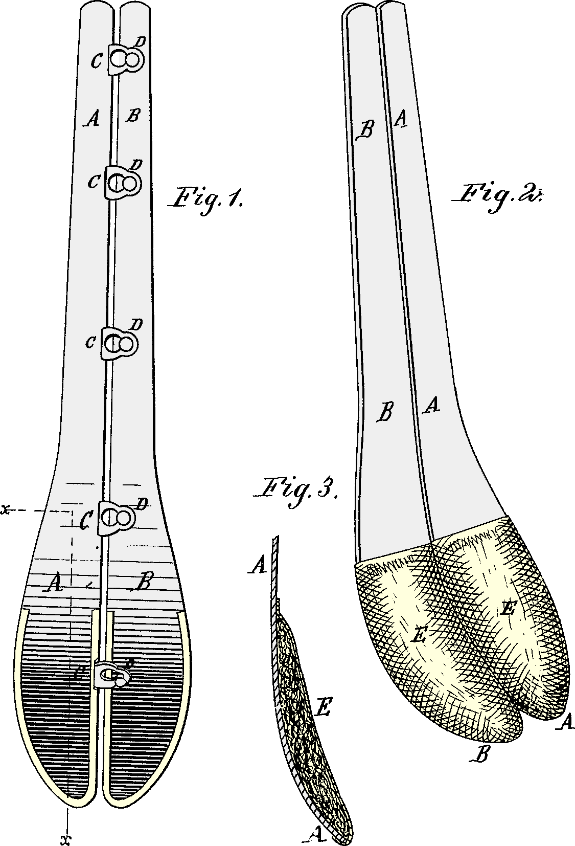 Spoon busk U. S. patent no. 214,352